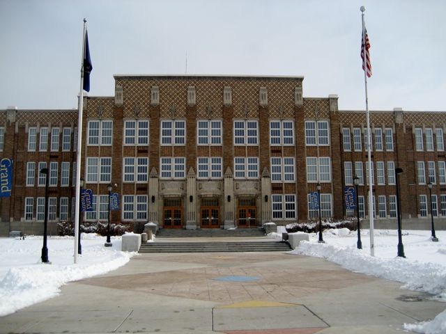 West side of South City Campus, Salt Lake Community College, Utah